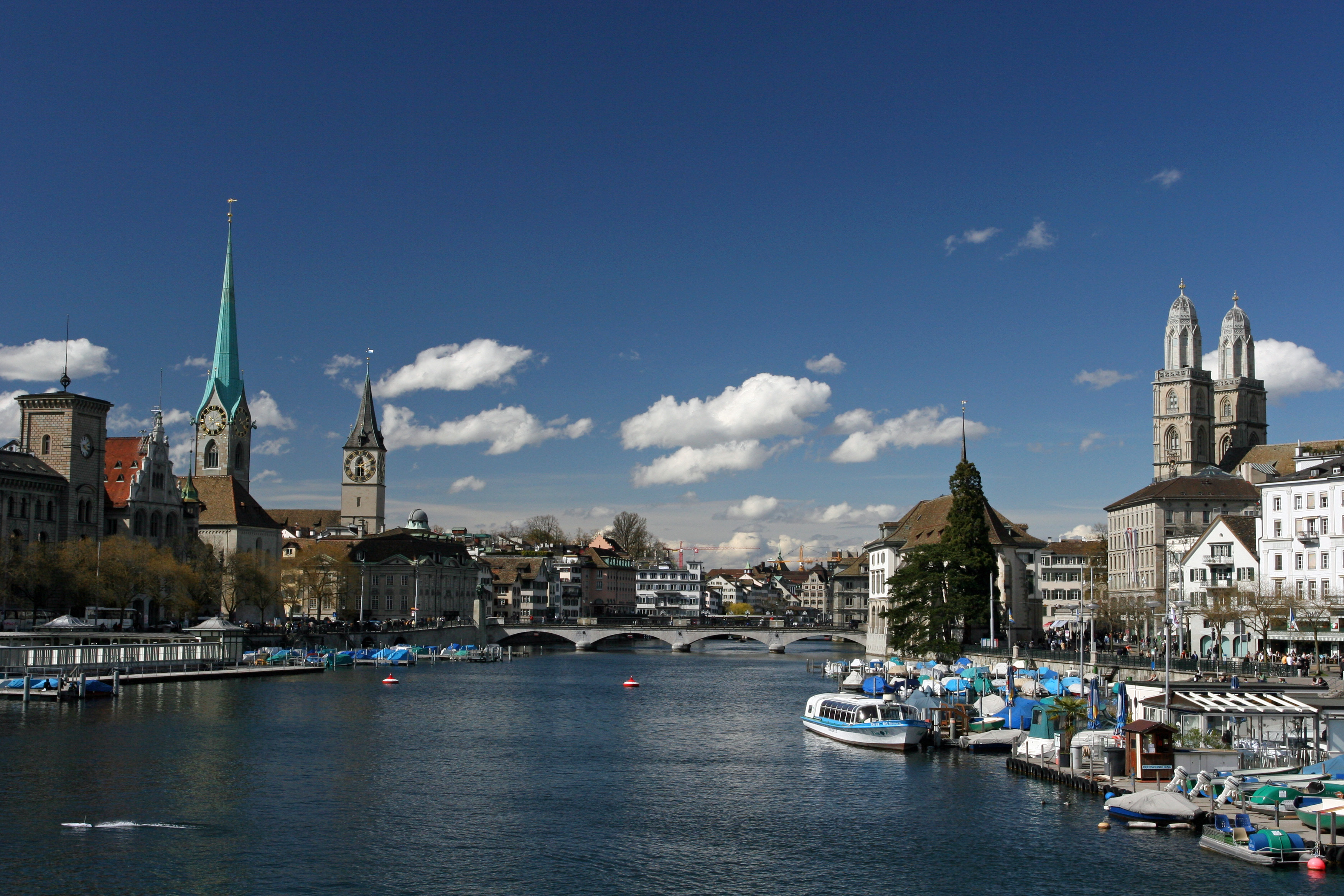 Limmat River in Zurich